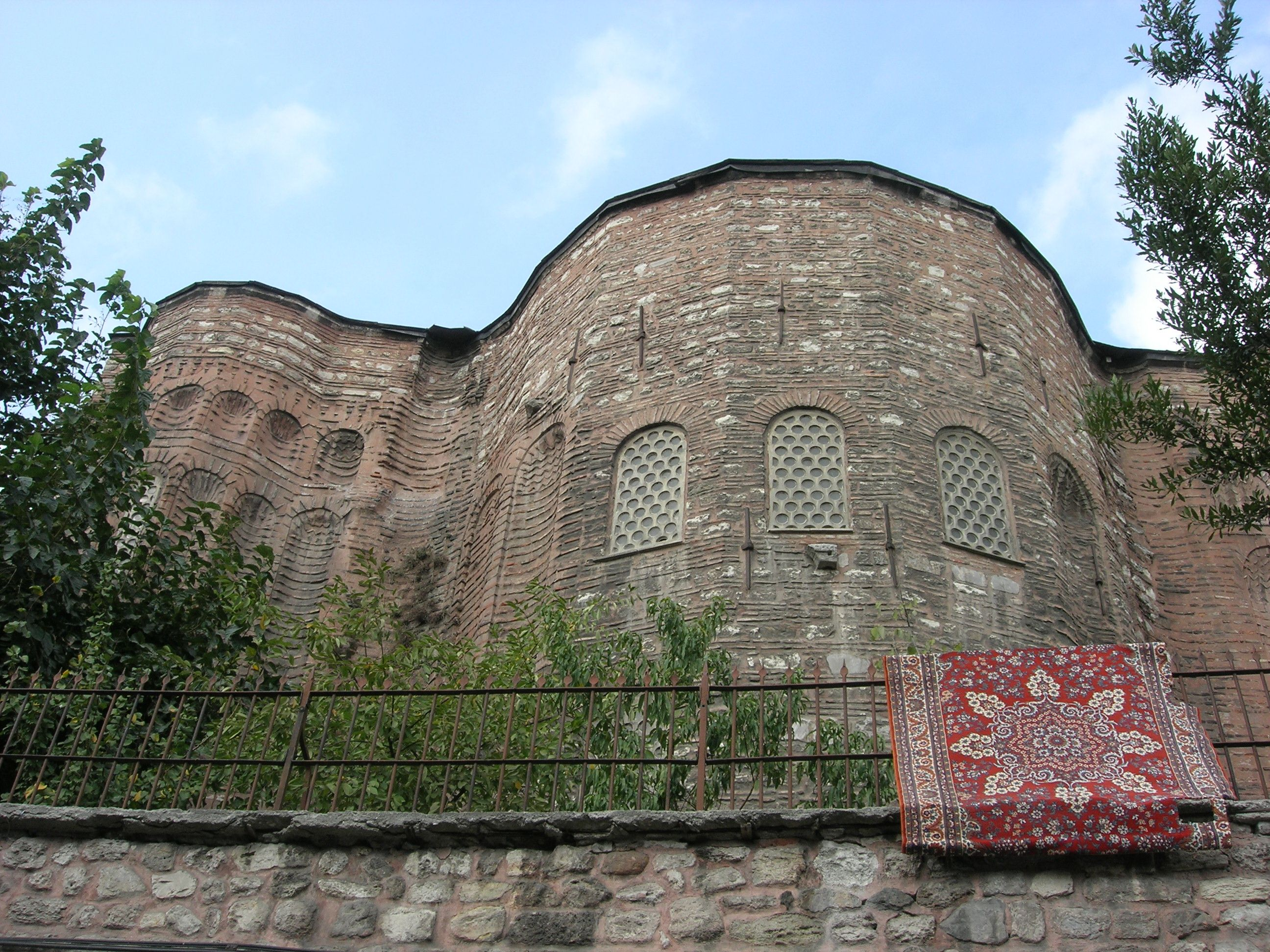 Particular of the Apses of the Gül Mosque in Istanbul